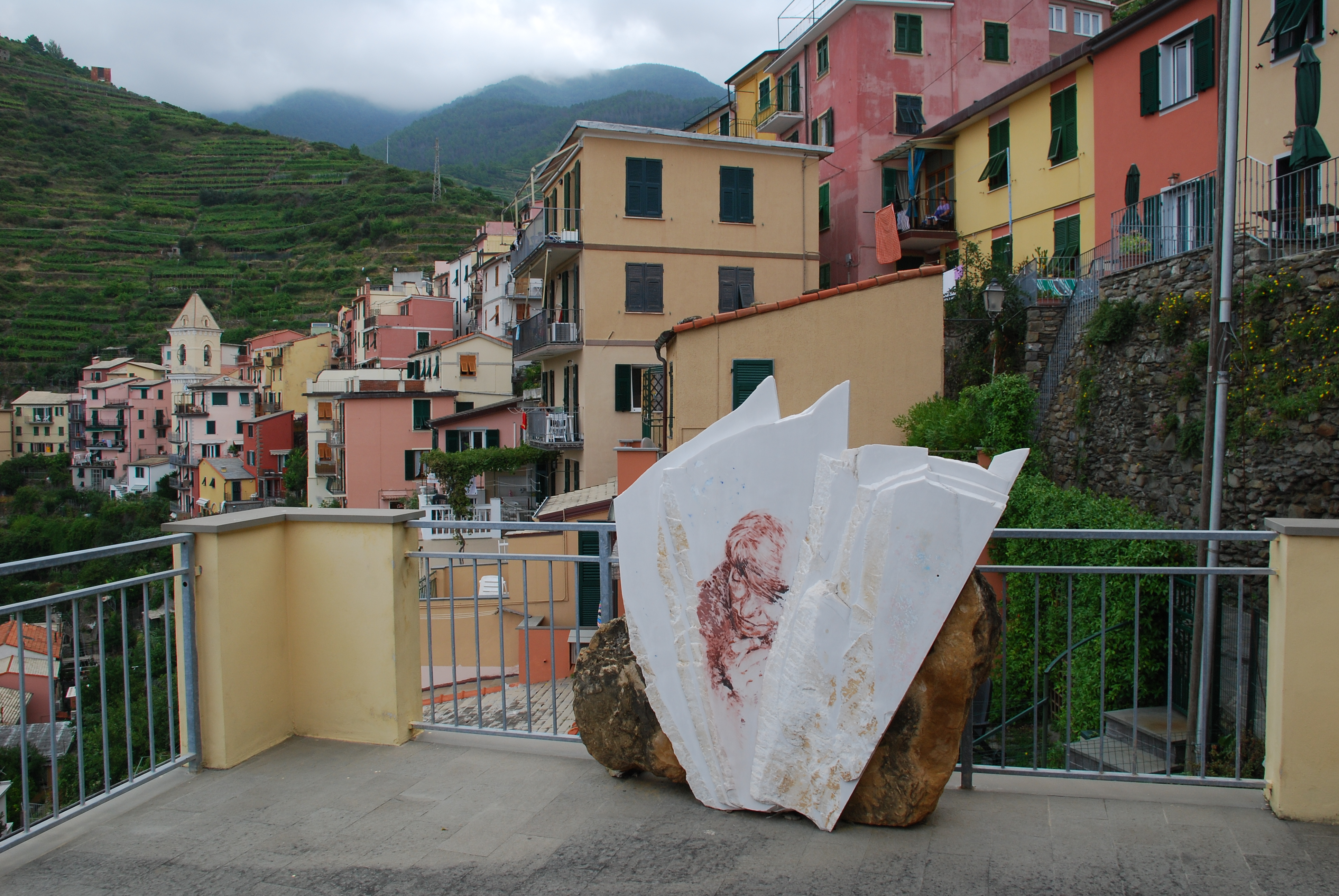 Monument to Fabrizio de André in Manarola (Cinque Terre), by Silvio Benedetto in collaboration with Olga Macaluso